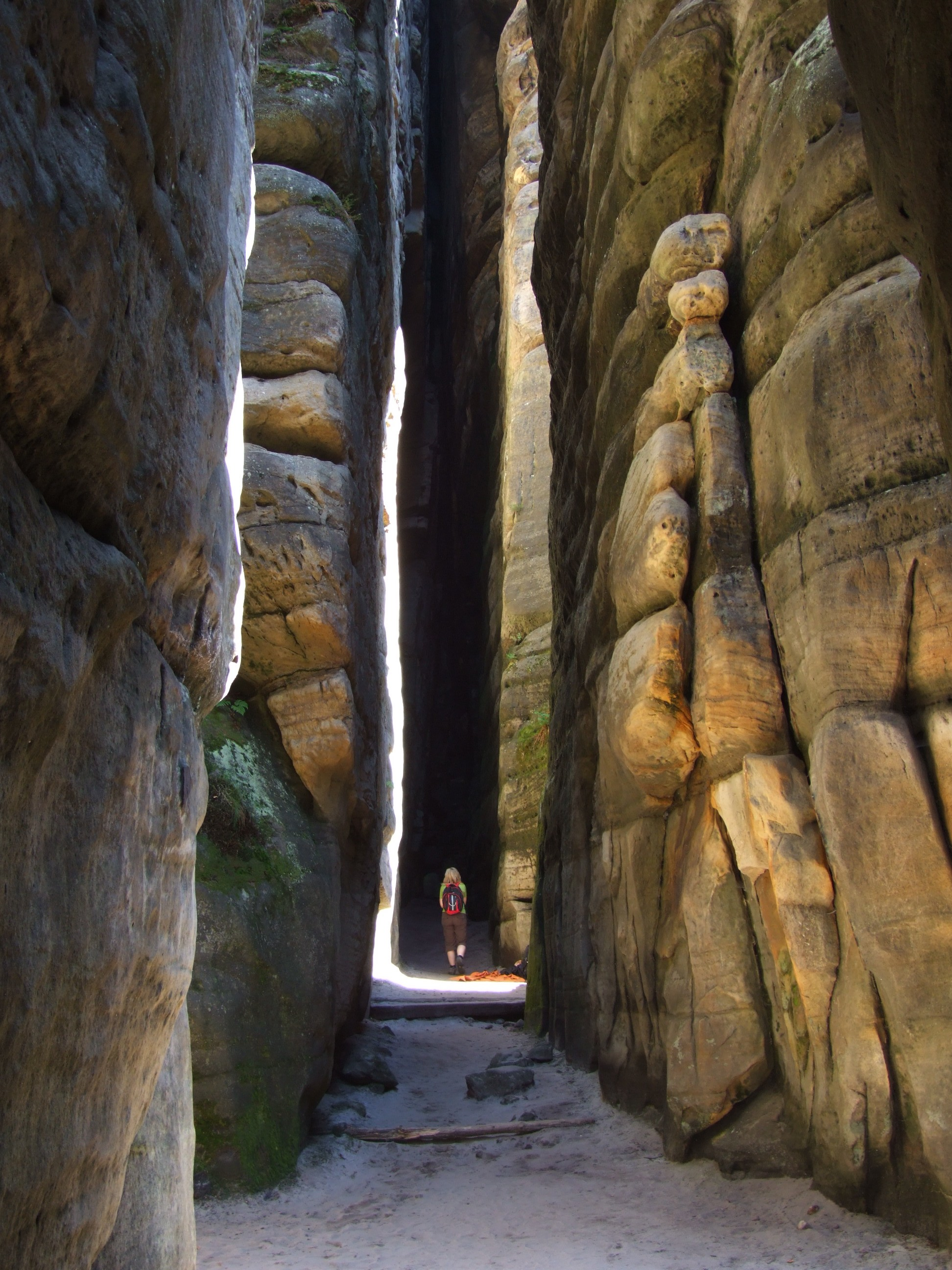 Teplické skalní město (Wekelsdorfer Felsen), Czech Republic - Skalní chrám (Felsendom)